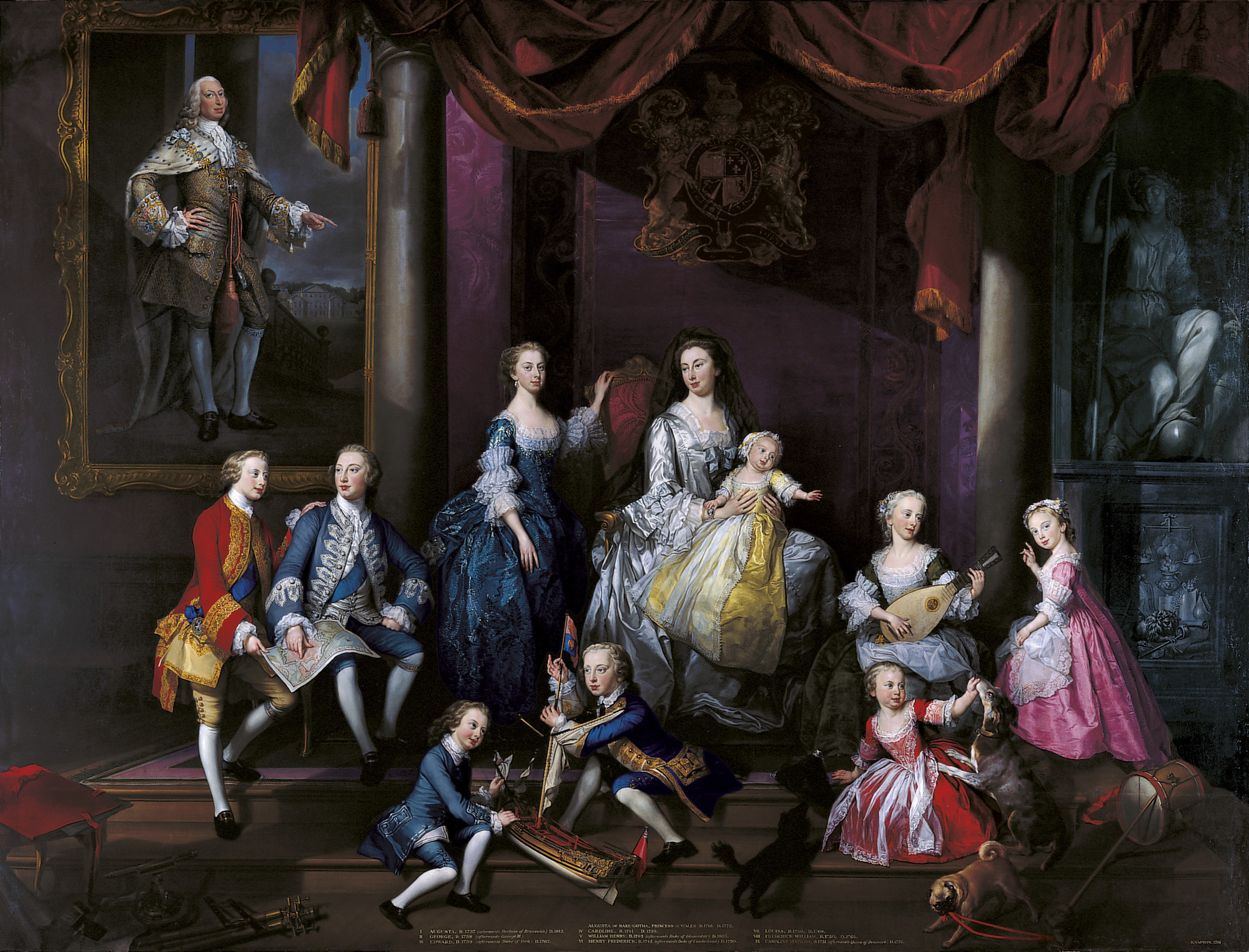 Presumably painted for Princess Augusta.